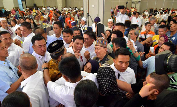 President Rodrigo Duterte interacts with participants of the Mindanao Hariraya Eid’l Fitr 2016 in Davao City on Friday. PPD / Cado Niña